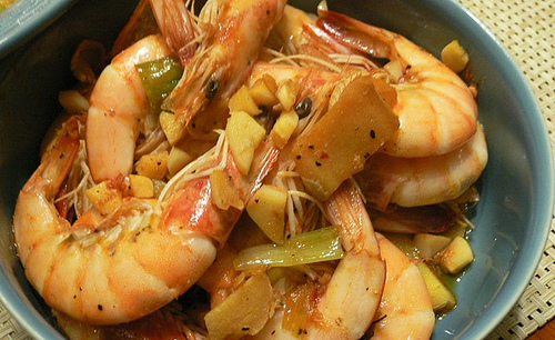 Cooked drunken shrimp